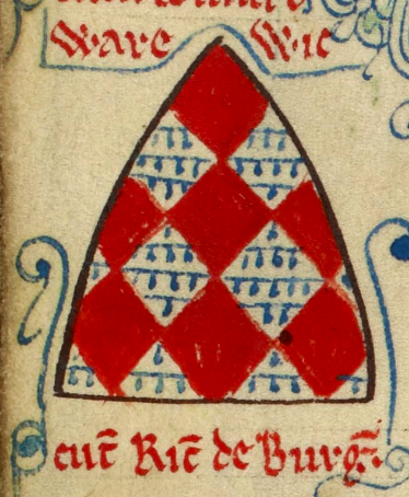 The inverted shield of Richard de Burgh from ‘Historia Anglorum’ dating from circa 1250 to 1259. (c) British Library Board, Royal Ms.14 CVII Historia Anglorum.